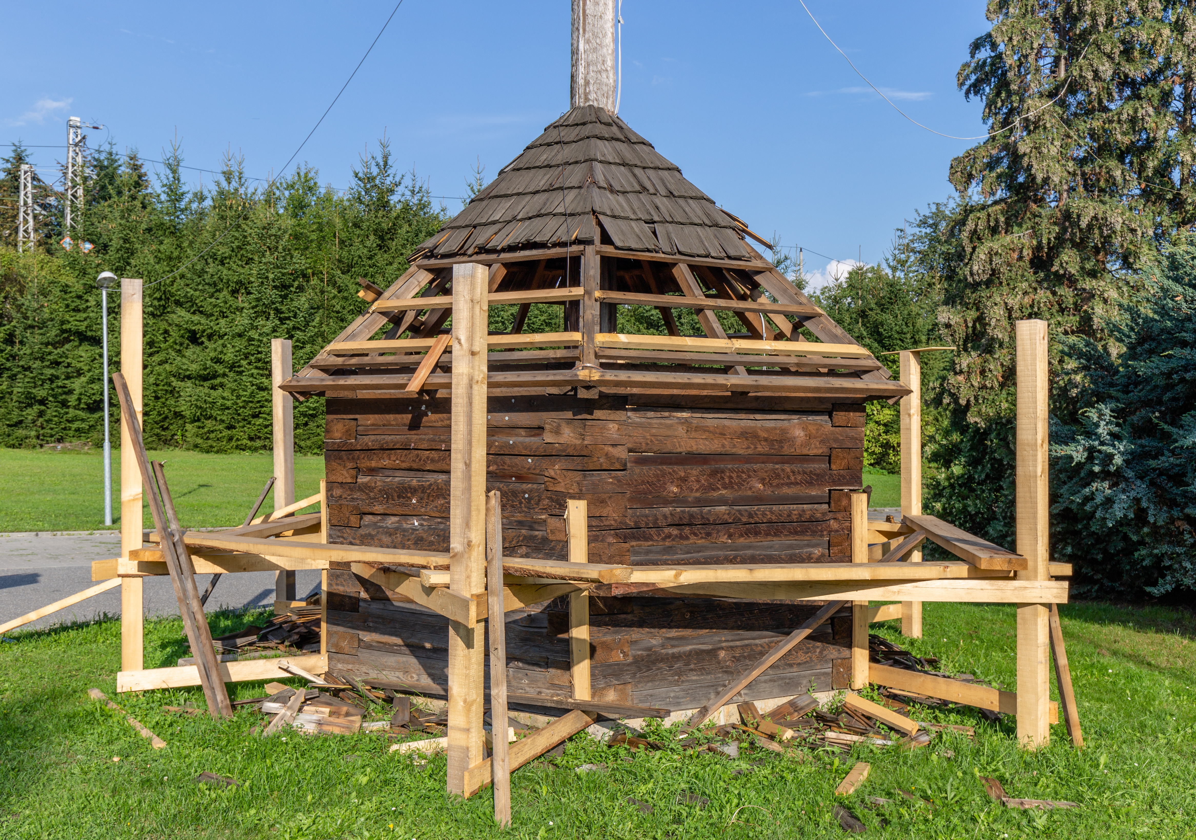 Bell tower in Horní Lideč, Czech Republic